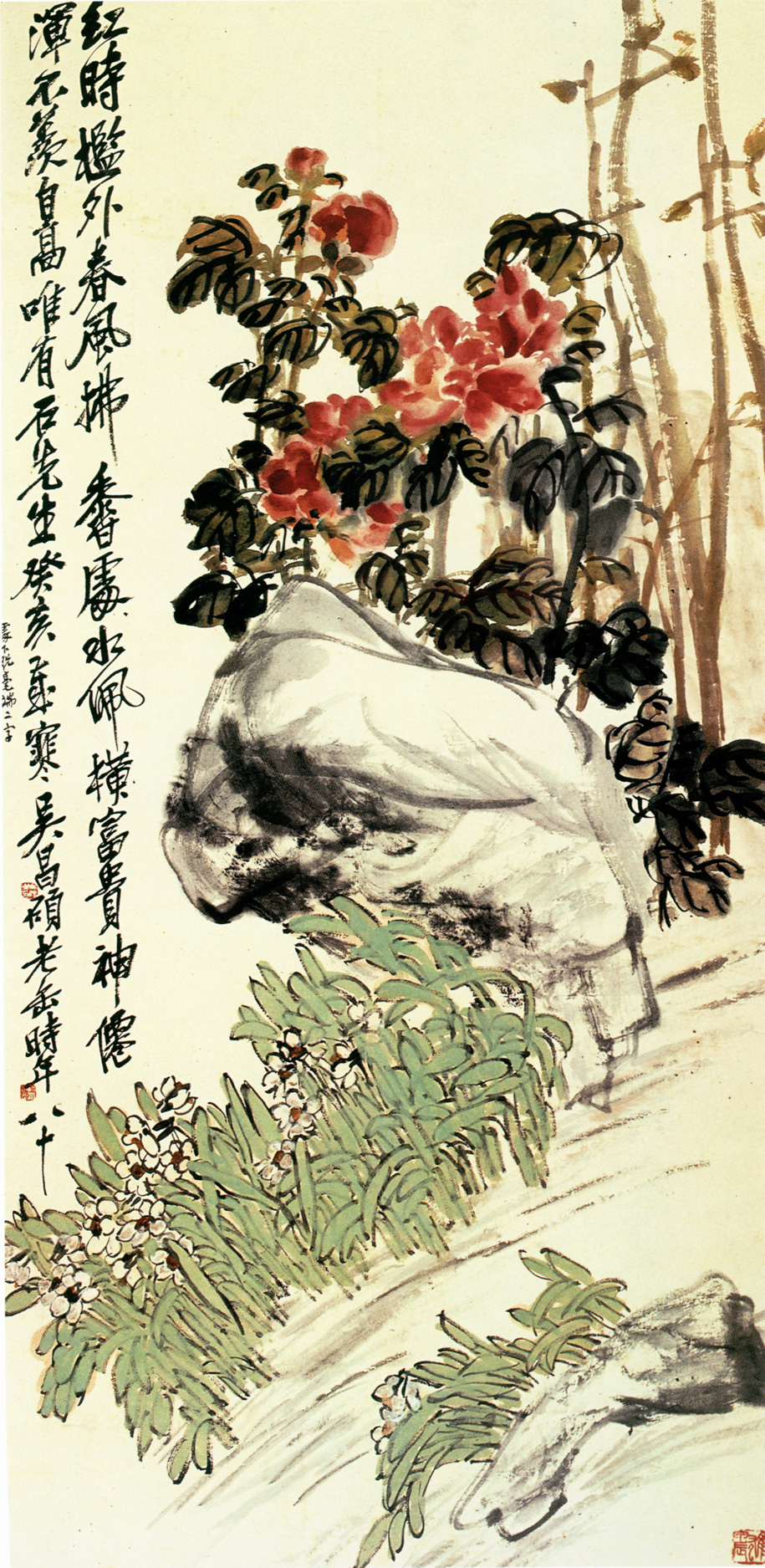 Peonies and Daffodils, Wu Changshuo, Qing Dynasty, China, Jilin Provincial Museum